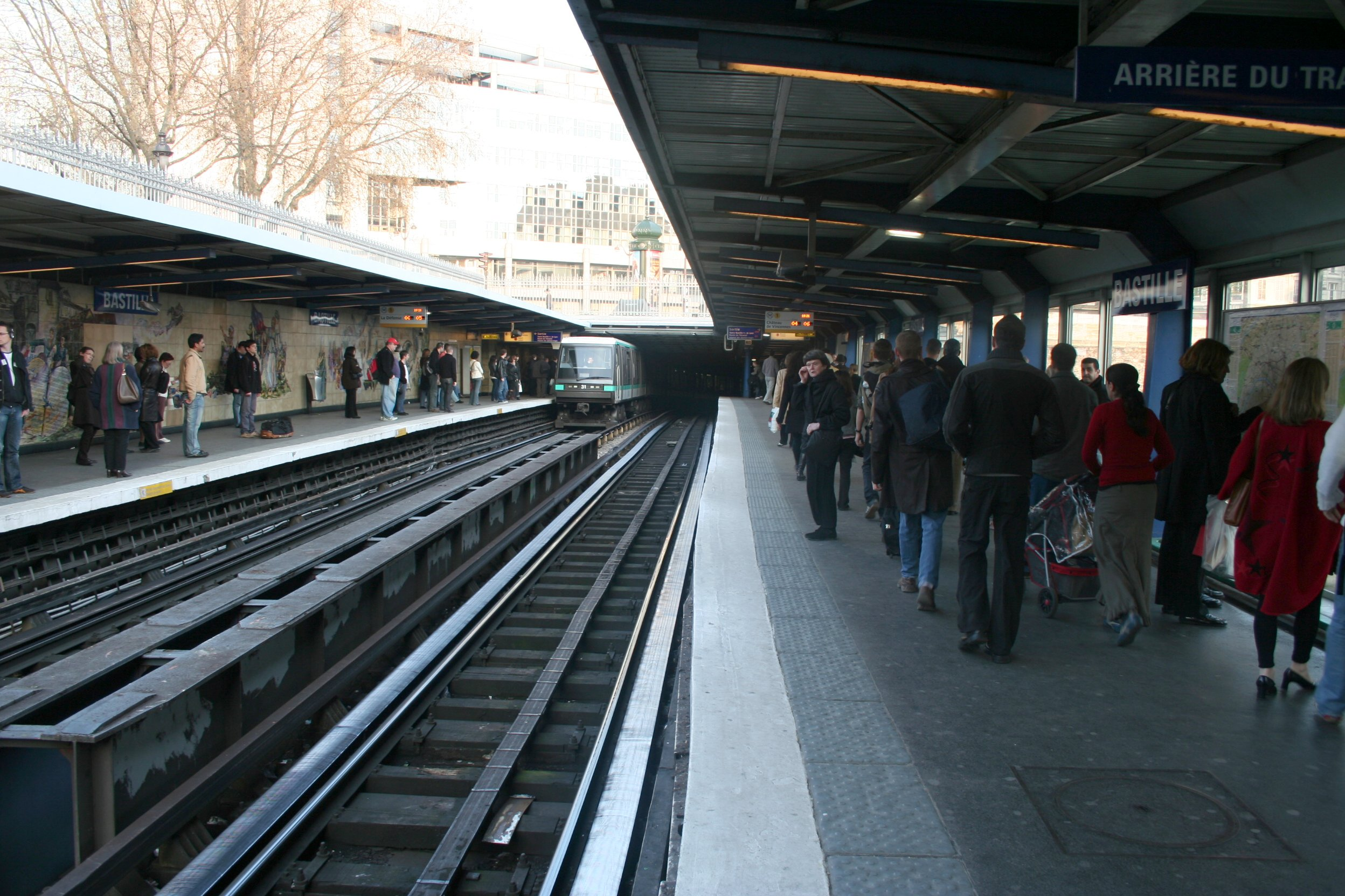 Subway station, Paris, line 1.